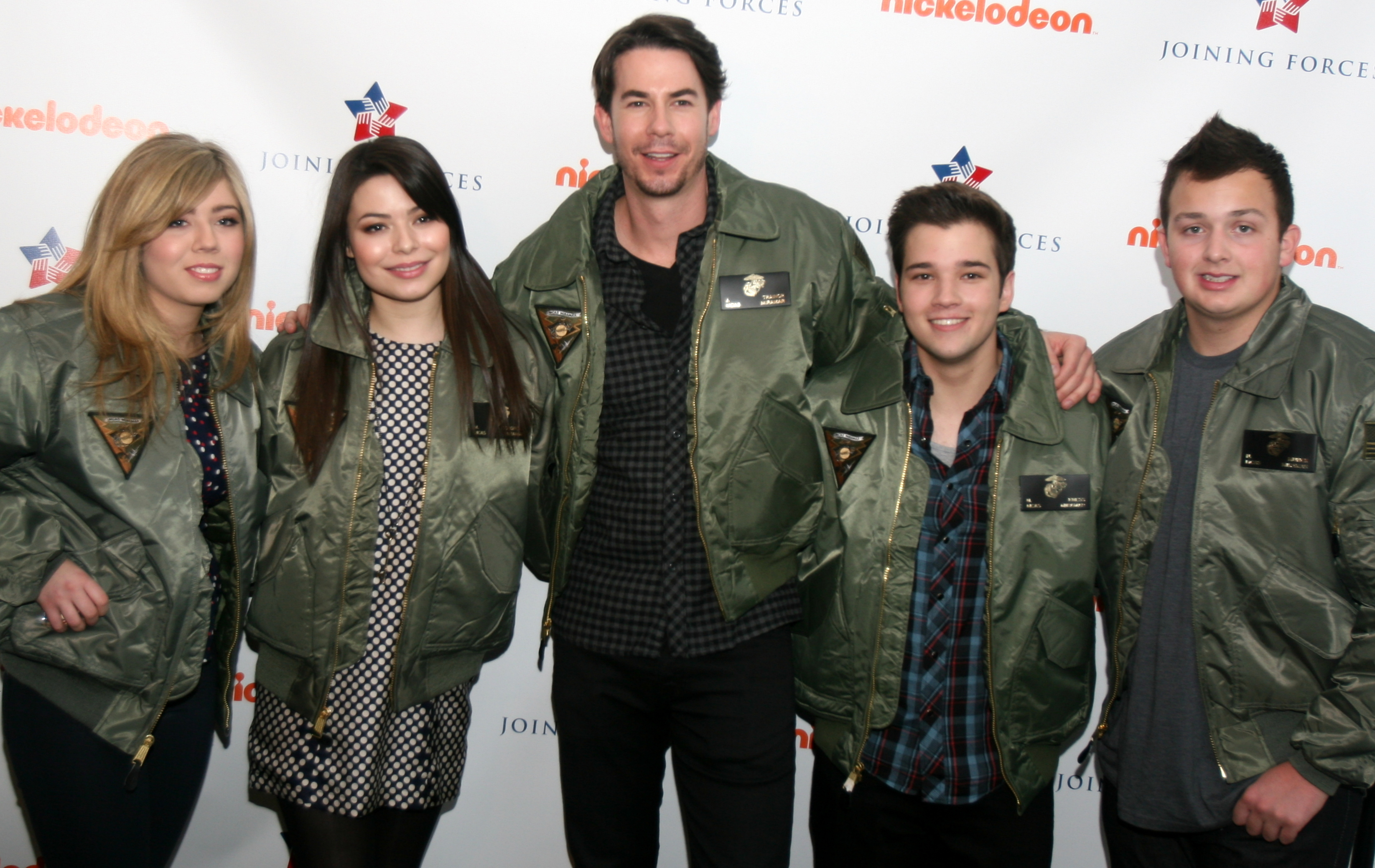 The cast of the Nickelodeon television show iCarly attends a special screening of an upsurging episode at the Bob Hope Theater at Marine Corps Air Station Miramar, Calif., Jan. 9, 2012. Marines and their families previewed an upcoming episode featuring first lady Michelle Obama.